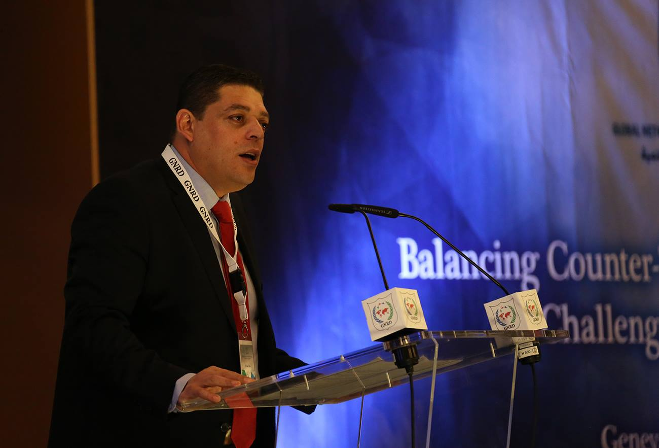 Photo of Dr. Loai Deeb on conference of balancing counter-terrorism and human rights challenges and opportunities, Geneva, Switzerland